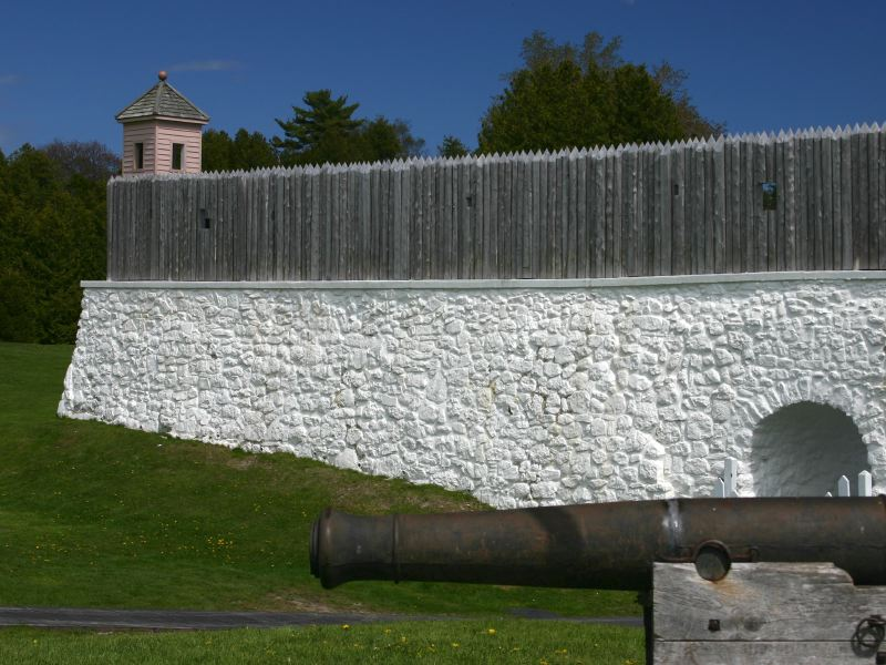 Fort Mackinac, Michigan, United States.